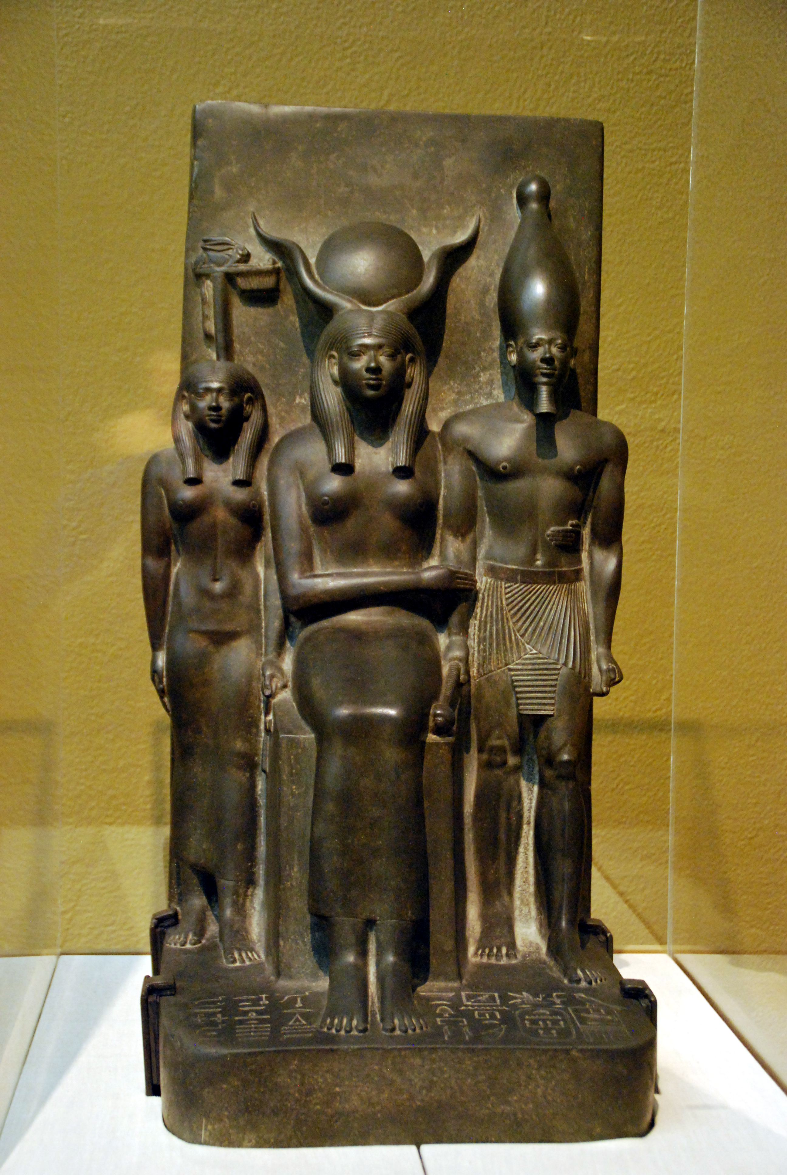 A triad statue depicting the Hare Nome goddess, the goddes Hathor, and the pharaoh Mekaura. Unlike the other statues, this one is inscribed on its base in dedication to the pharaoh. Originally from the Valley Temple of Mycerinus at Giza, made of Greywacke. Created during the 4th dynasty, circa 2548-2530 B.C. Now at the Museum of Fine Arts, Boston. Museum Expedition 09.200; more Informations.